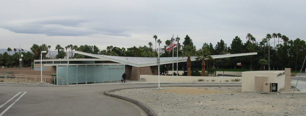 Photograph of the Palm Springs Official Visitors Center, a former gas station building designed by Albert Frey, located at the foot of the drive up to the Palm Springs Aerial Tramway.